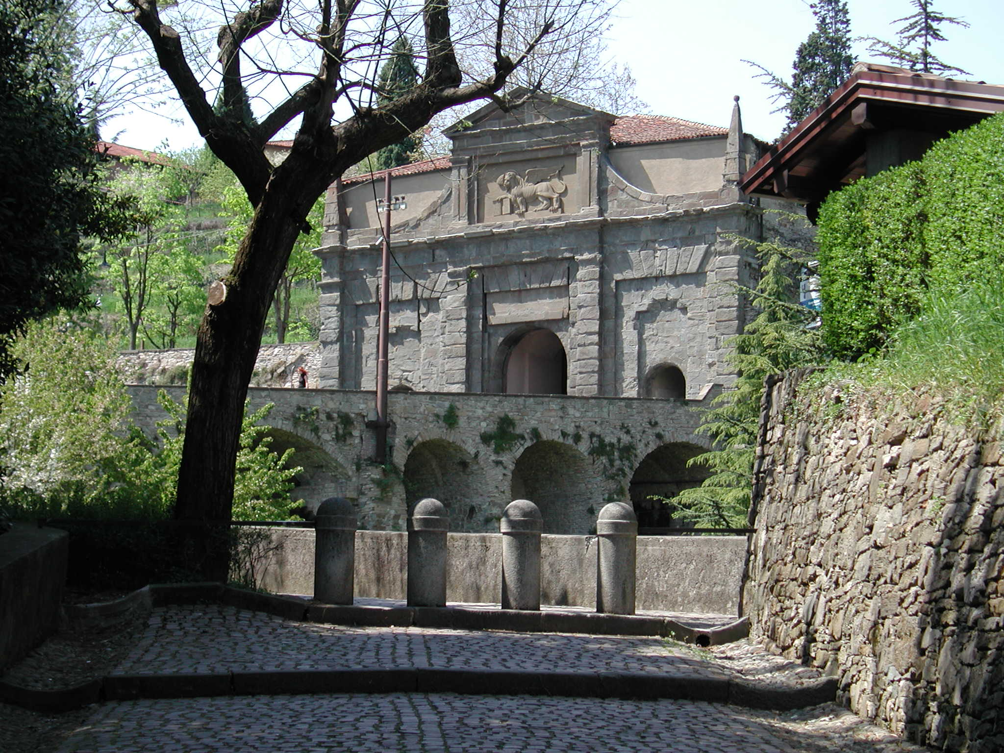 City wall and door, Bergamo, Italy